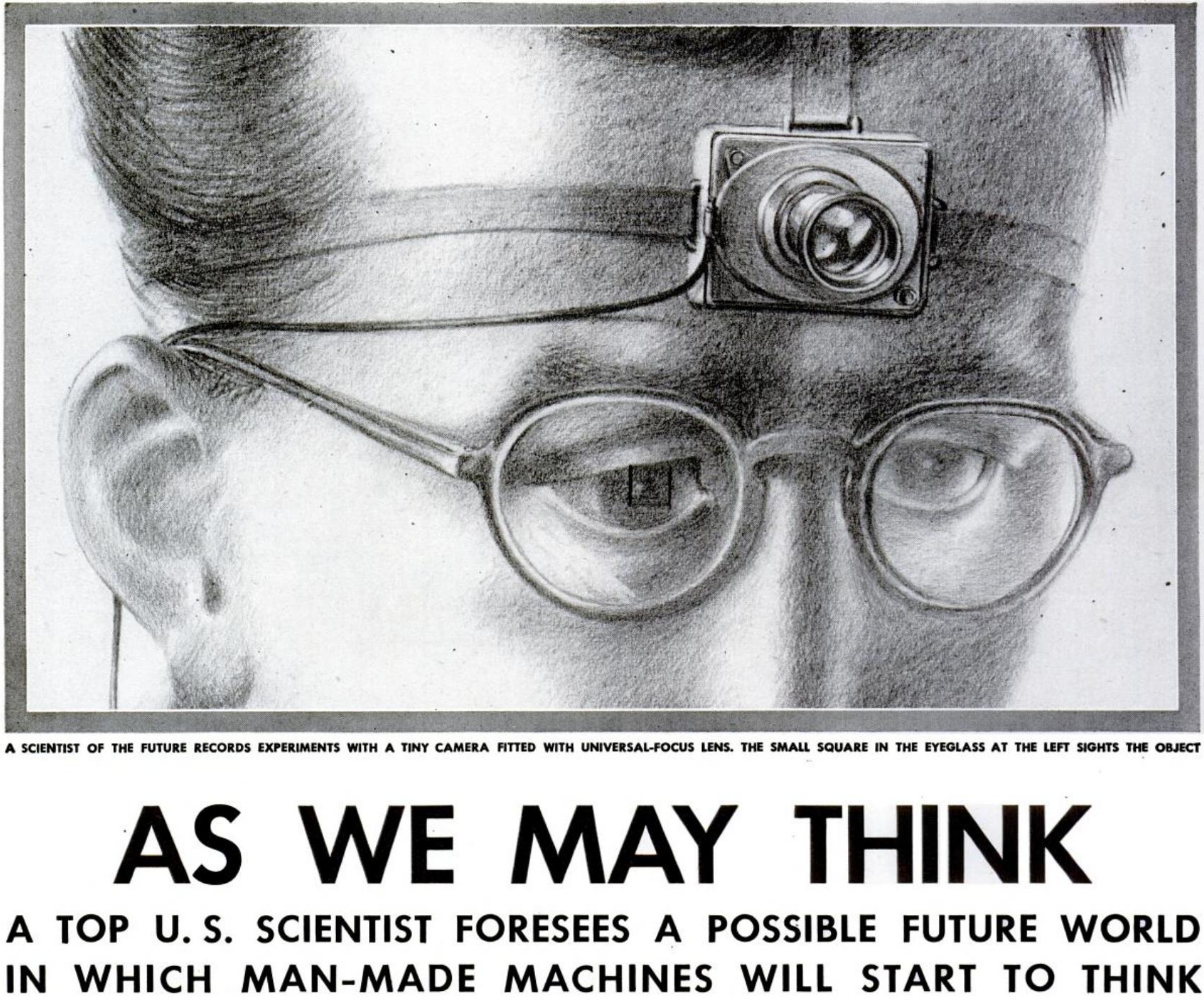 The Memex